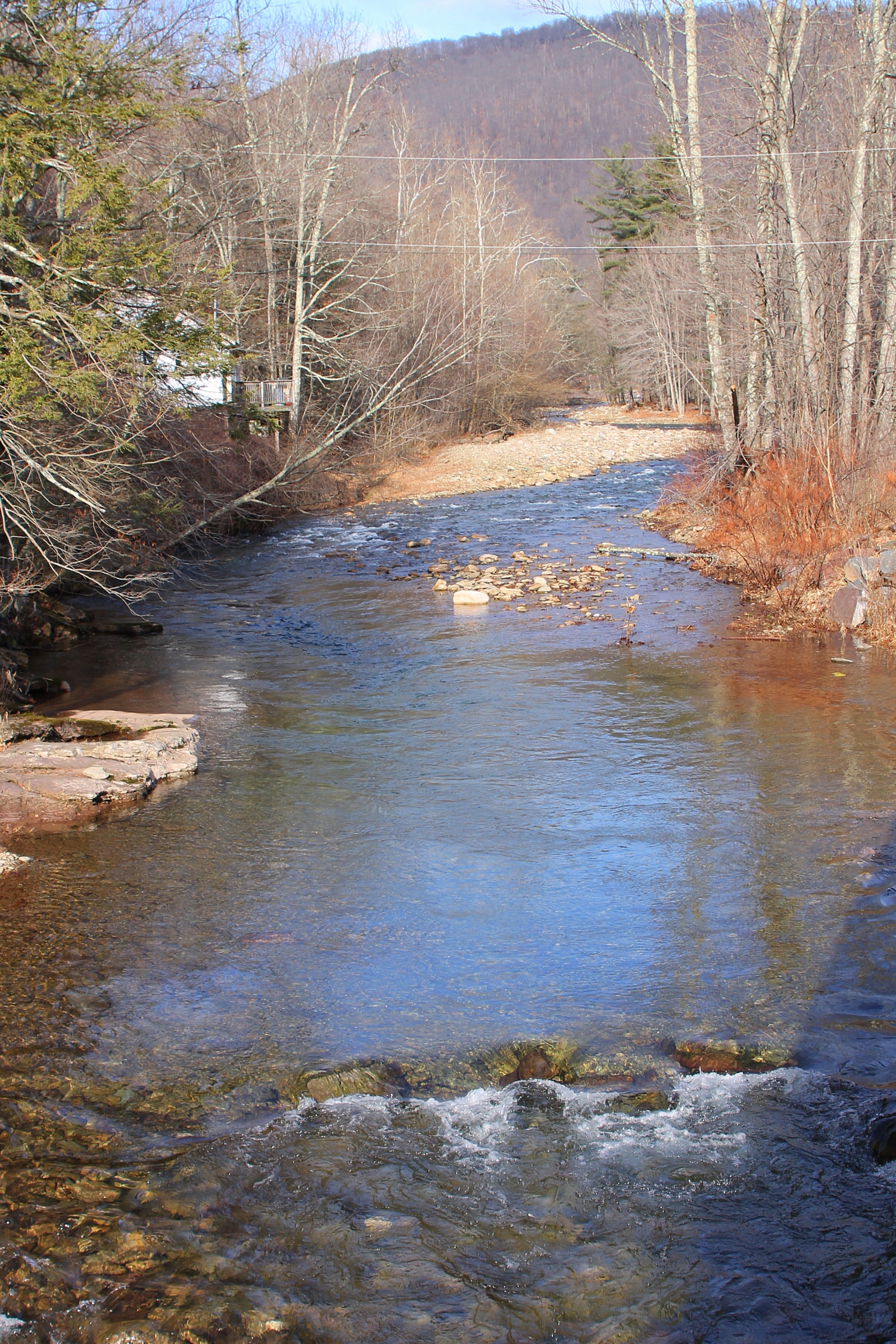 West Branch Fishing Creek looking upstream in December